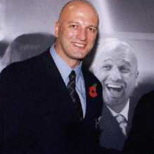 Image of Bryan Gunn in his eponymously-named club at Carrow Road. He is standing in front of a photograph of himself.